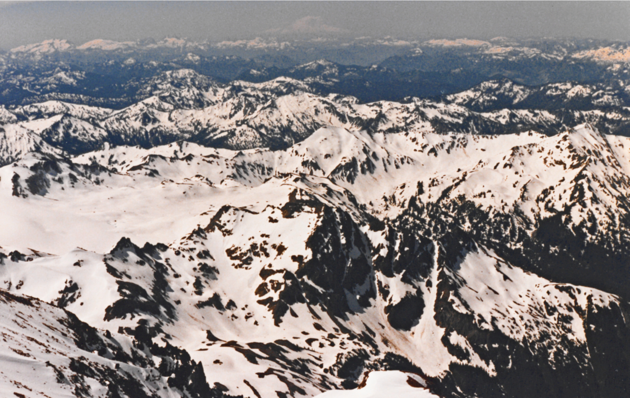 Glacier Peak summit view looking south. Washington state.